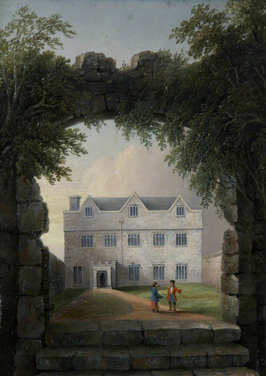 Torwood House in the parish of Tor Mohun, Devon (demolished in the 1840s), painted by John Wallace Tucker (1808–1869). This painting is probably a copy of an earlier work. Collection of Torre Abbey Historic House and Gardens, Devon